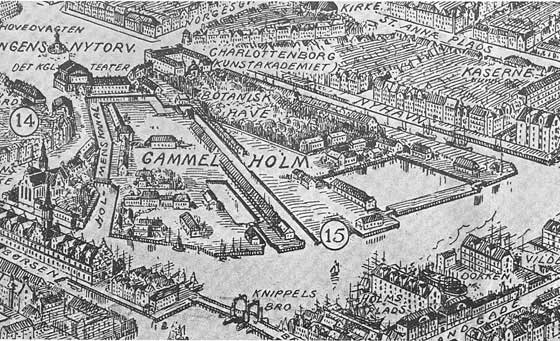 The former Gammelholm naval dickyards in c. 1840 as the area appeared prior to its redevelopment in the 1850s and 1870s in Copenhagen, Denmark